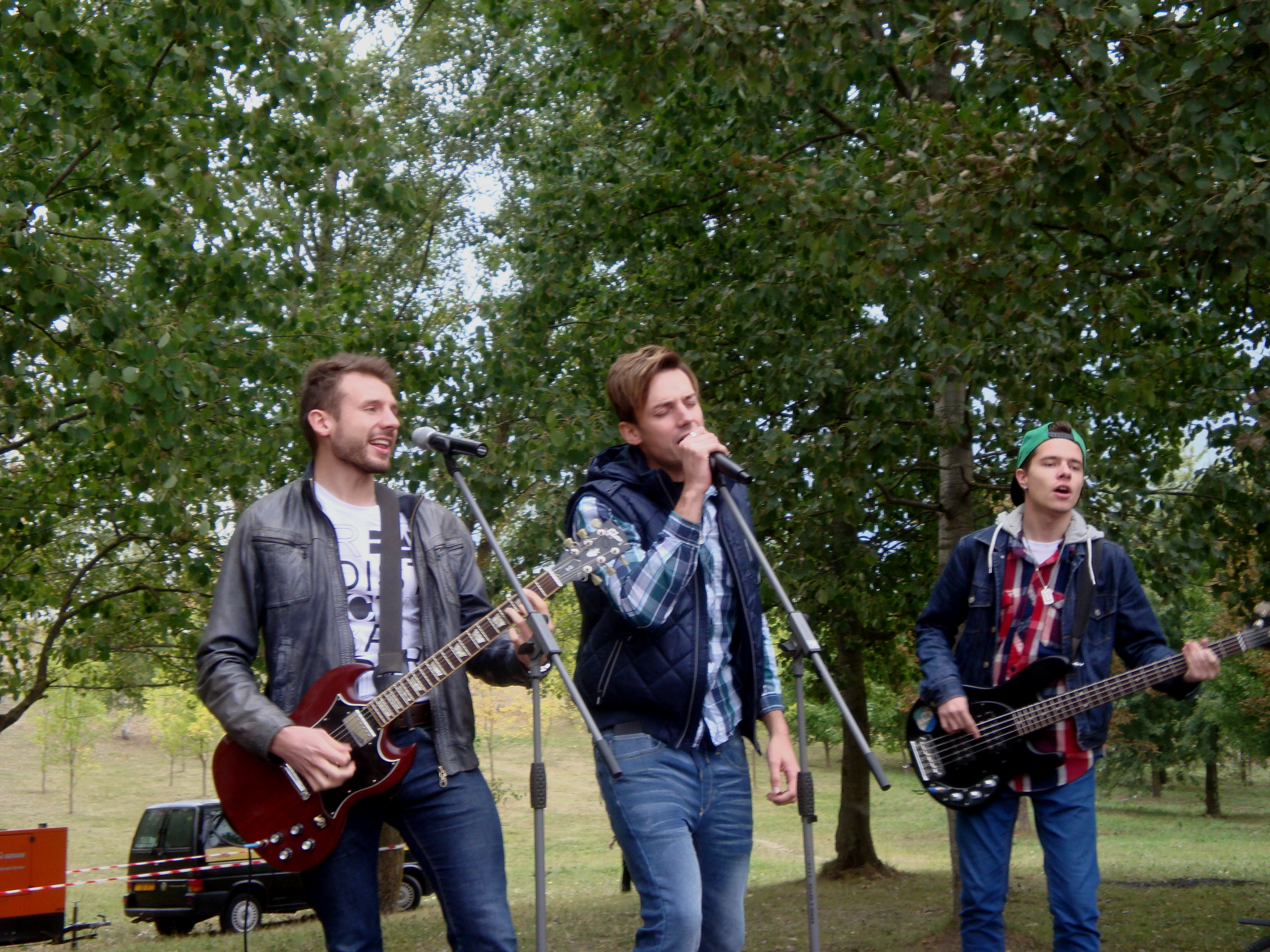 Belarusian pop rock band "Litesound" - during the official opening of the sports playground for street workout in Michail Paulau Park in Minsk city (Belarus), 12 September 2015 AD